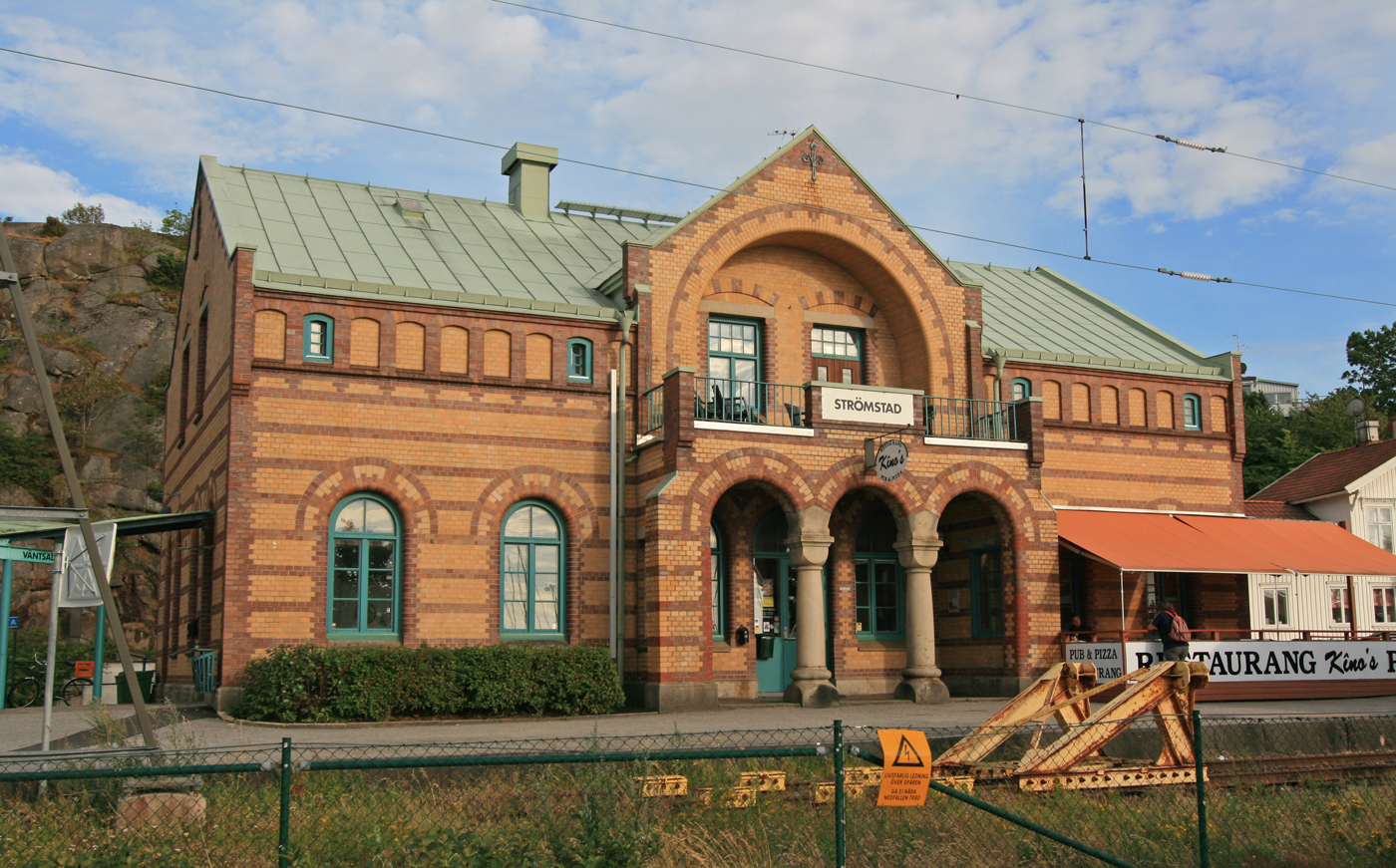 Strömstad train station, Sweden.